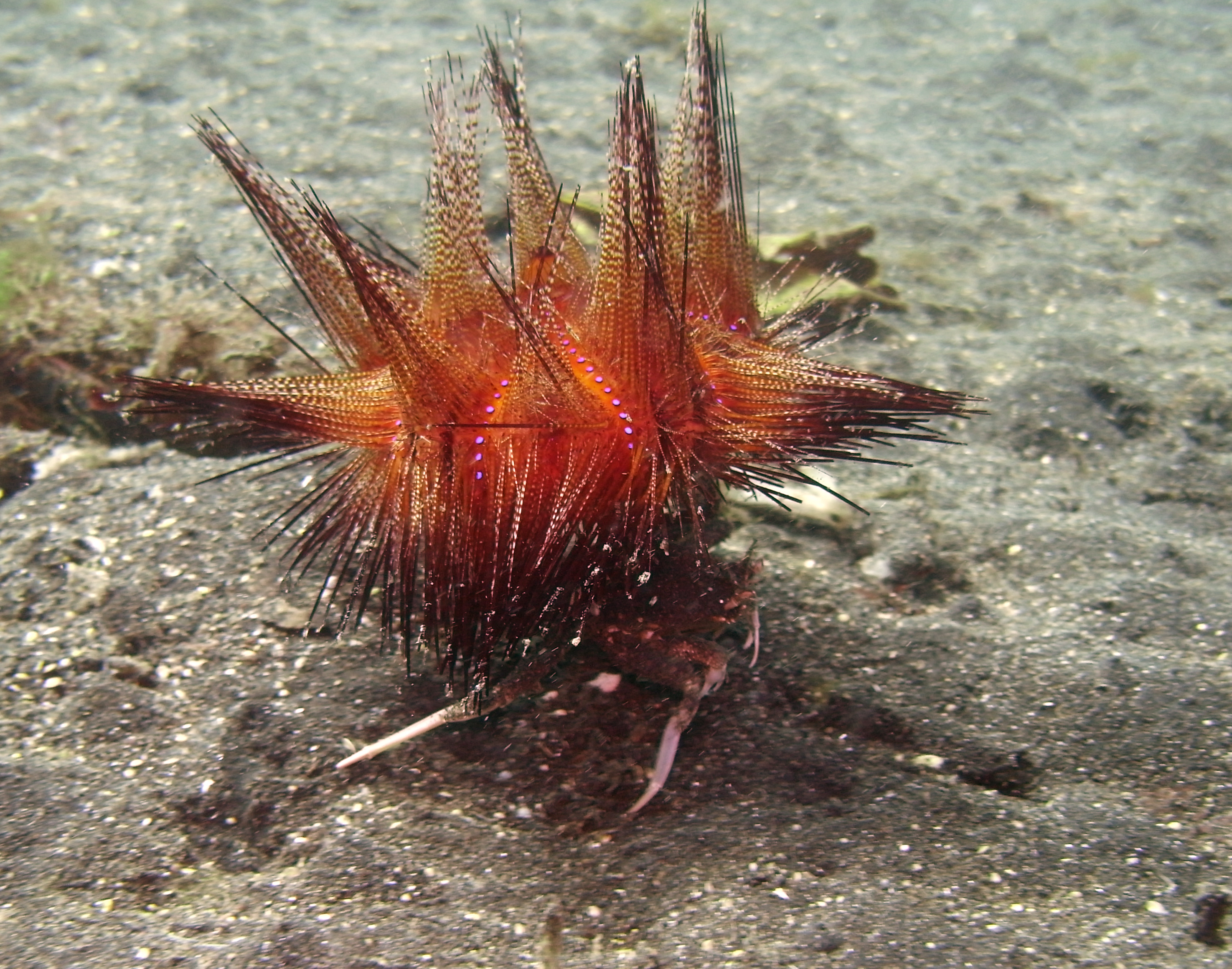 Carrier Crab (Dorippe frascone) with Red Radiant Sea Urchin (Astropyga radiata). Colour-corrected from the original photo.